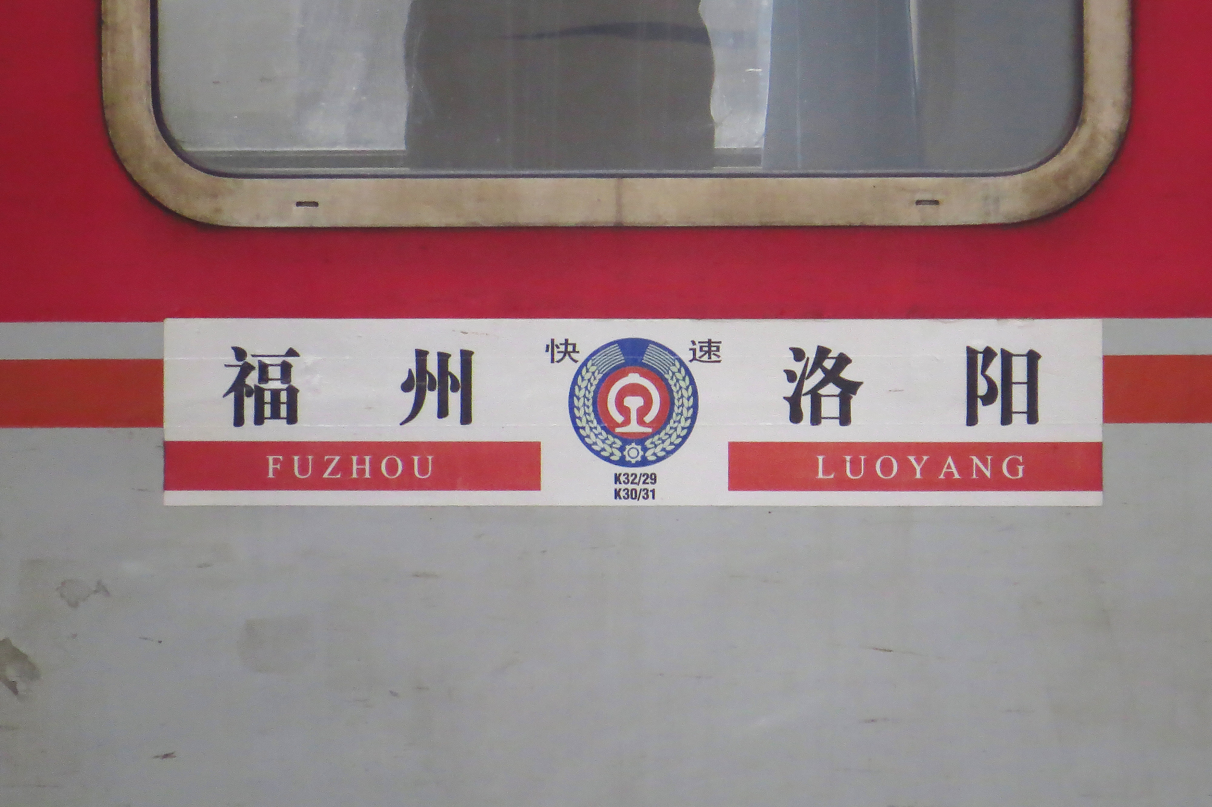 This train runs from Fuzhou to Luoyang.